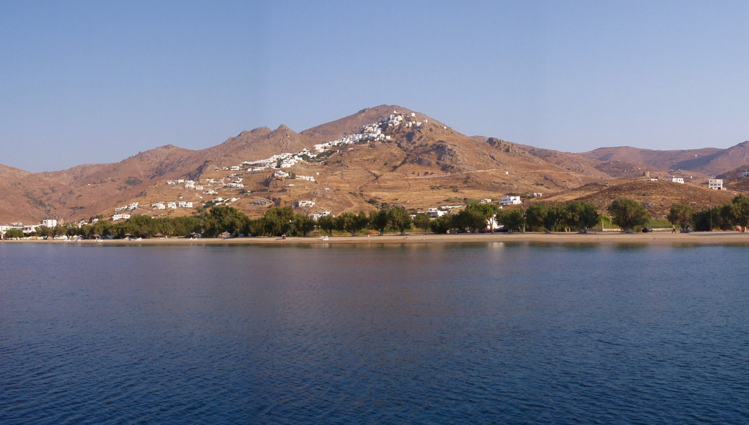 Seriphos Island, Seriphos: Leivadhion and Chora (centered) in Googlemaps space view Chora, Greece, 30.07.2003. Photo © by Wikinaut